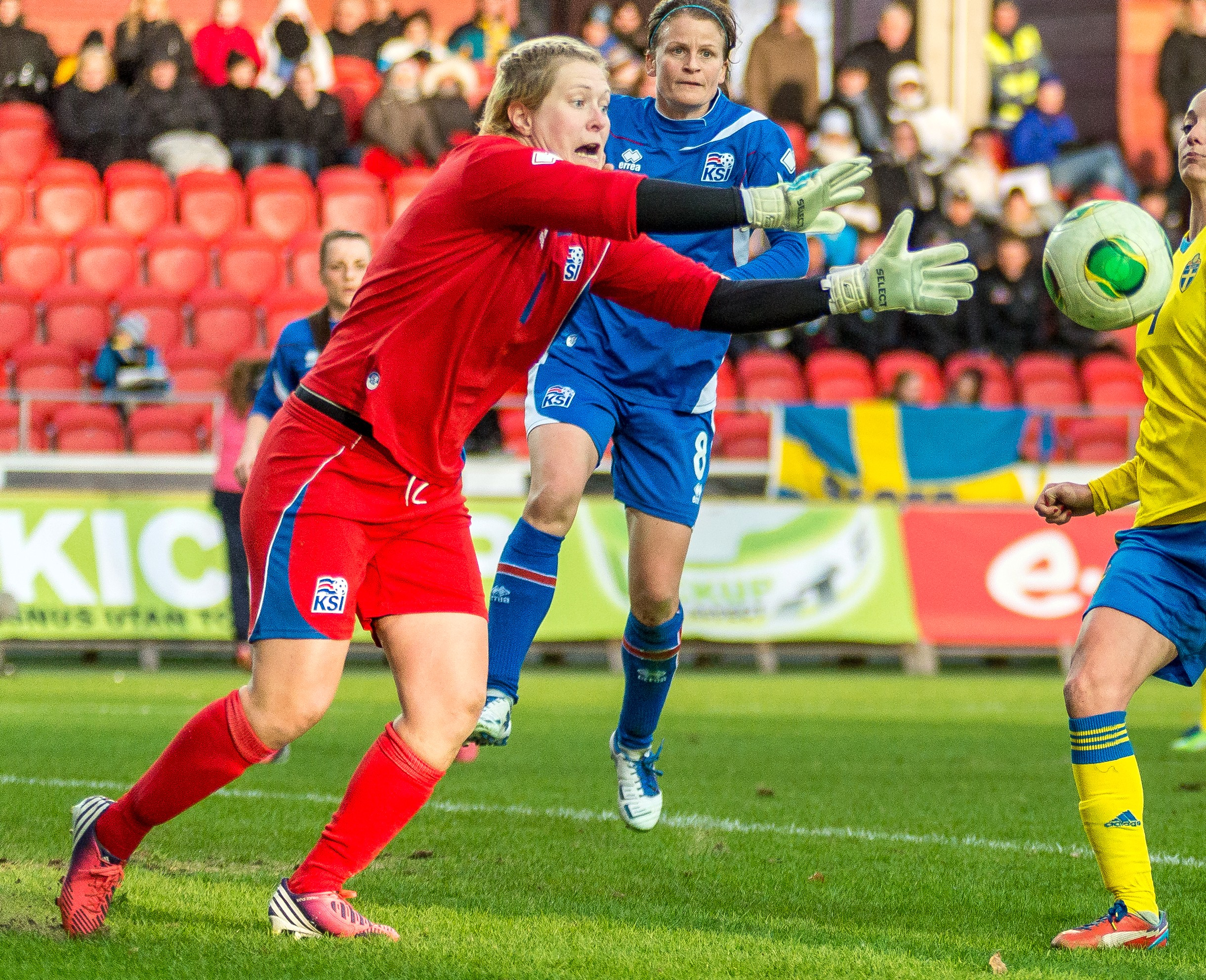 Icelandic footballer Þóra Björg Helgadóttir playing an international friendly against Sweden at Myresjöhus Arena in Växjö, 6 April 2013.